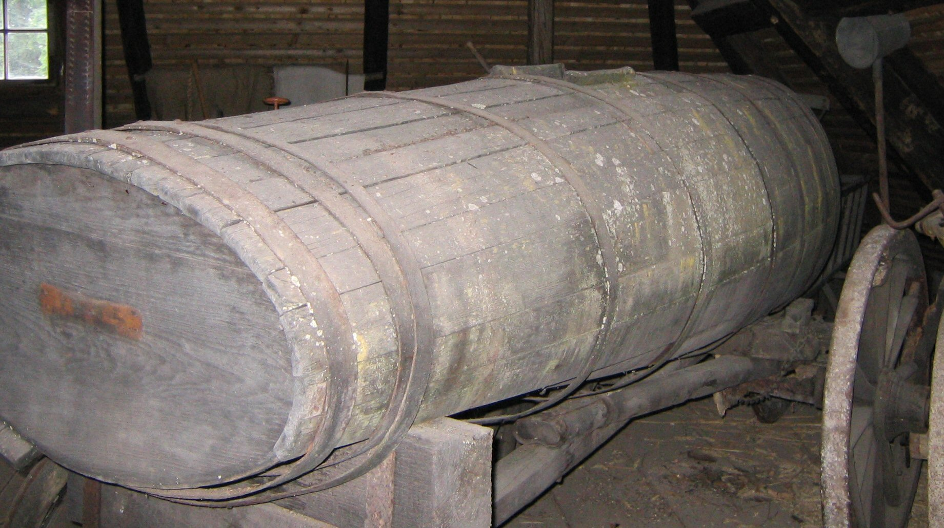 Old wooden liquid manure tanker at the Freilichtmuseum Neuhausen ob Eck